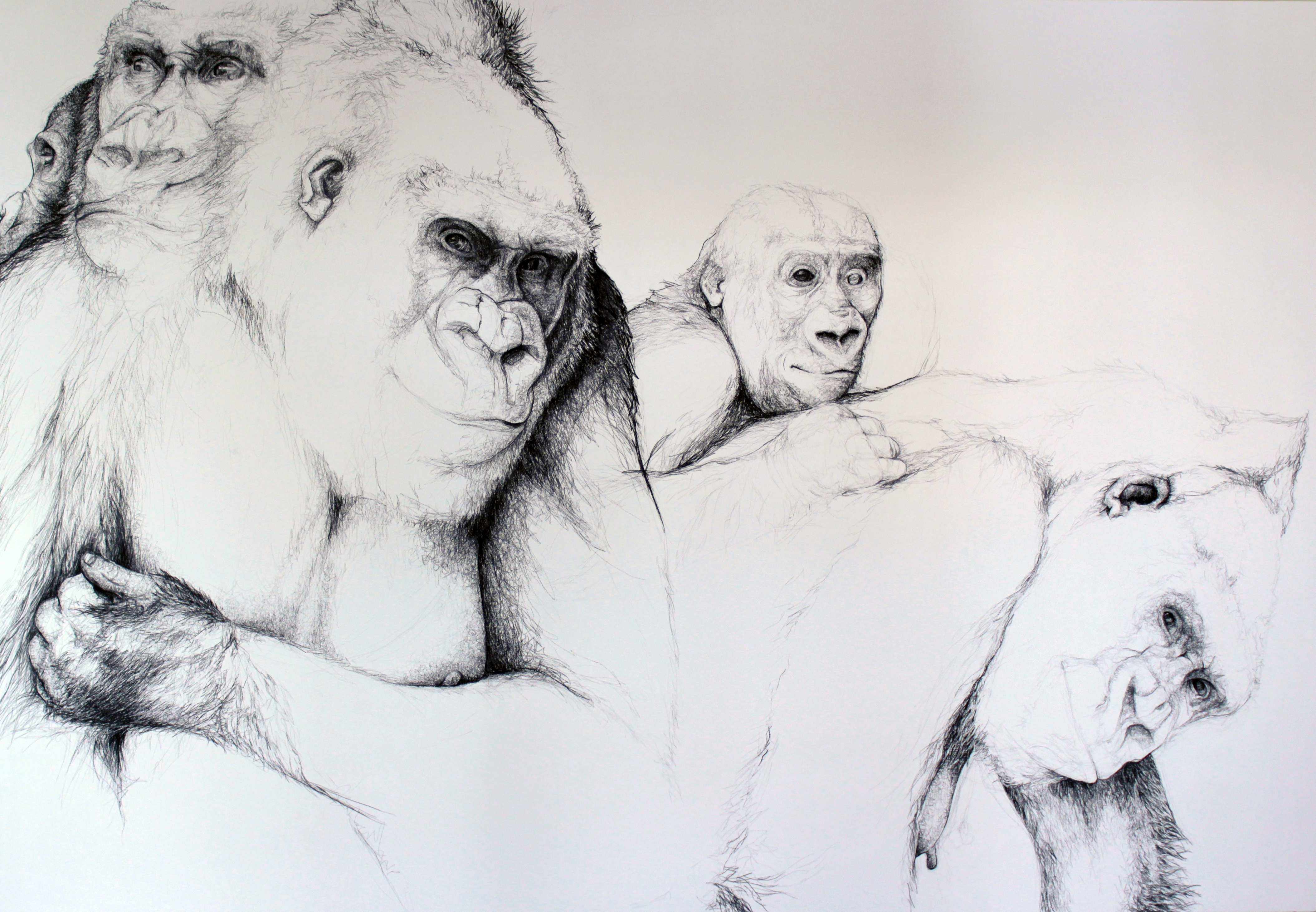 Ecofeminist spanish artist